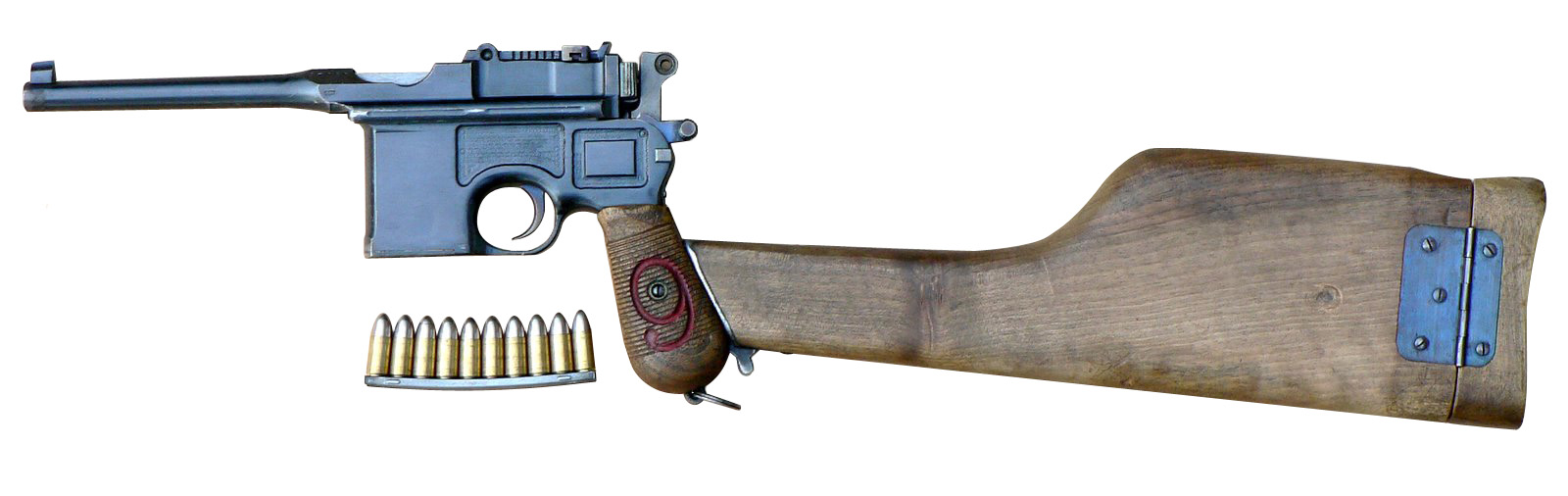 Mauser C96 M1916 "Red 9"